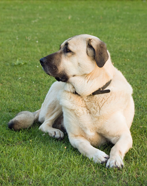 Anatolian Shepherd dog laying on the grass